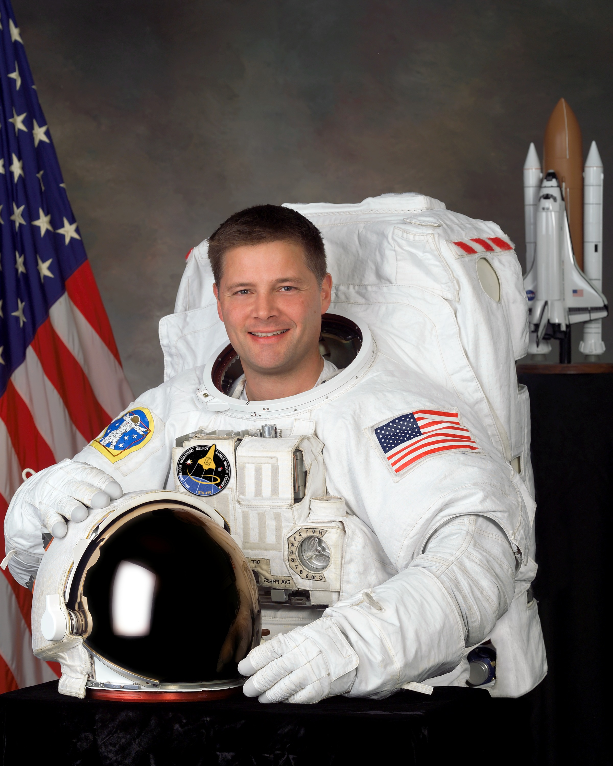 JSC2007-E-08803 Astronaut Douglas H. Wheelock, mission specialist